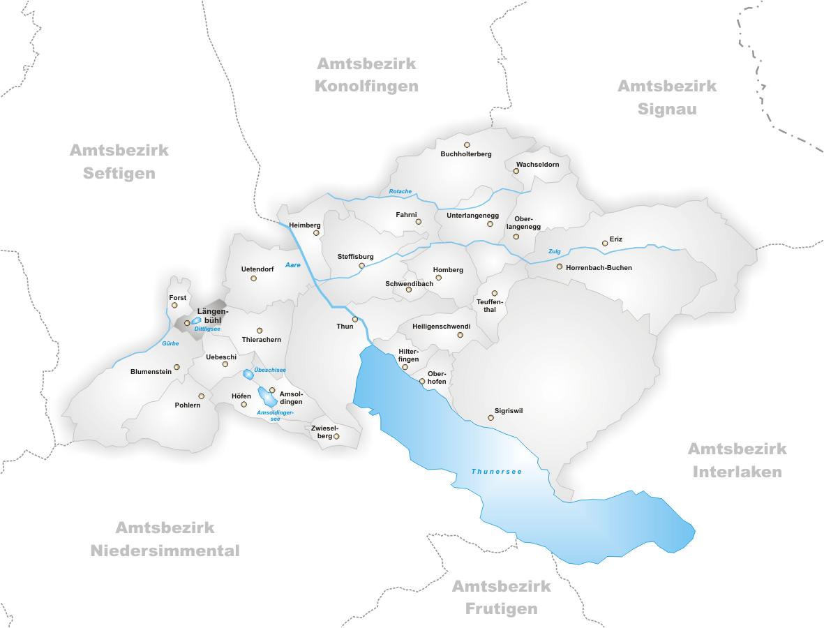 Municipality Längenbühl